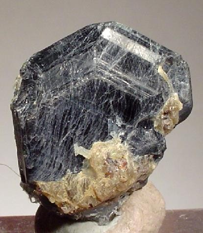 Sapphirine Locality: Anosy (Fort Dauphin) Region, Tuléar (Toliara) Province, Madagascar (Locality at ) Size: 2.1 x 1.9 x 1.4 cm. A sharp, large, indigo-blue sapphirine crystal from Ft. Dauphin, Madagascasr. The moderately lustrous, two-sided crystal is nearly pristine. The embedded matrix is a nice accent. Sapphirine is a rare silicate, named for the blue color allusion and shape of sapphire. Highly representative of the species and locale. Ex. Dick Jones Collection and dating from the 1960s or 70s.